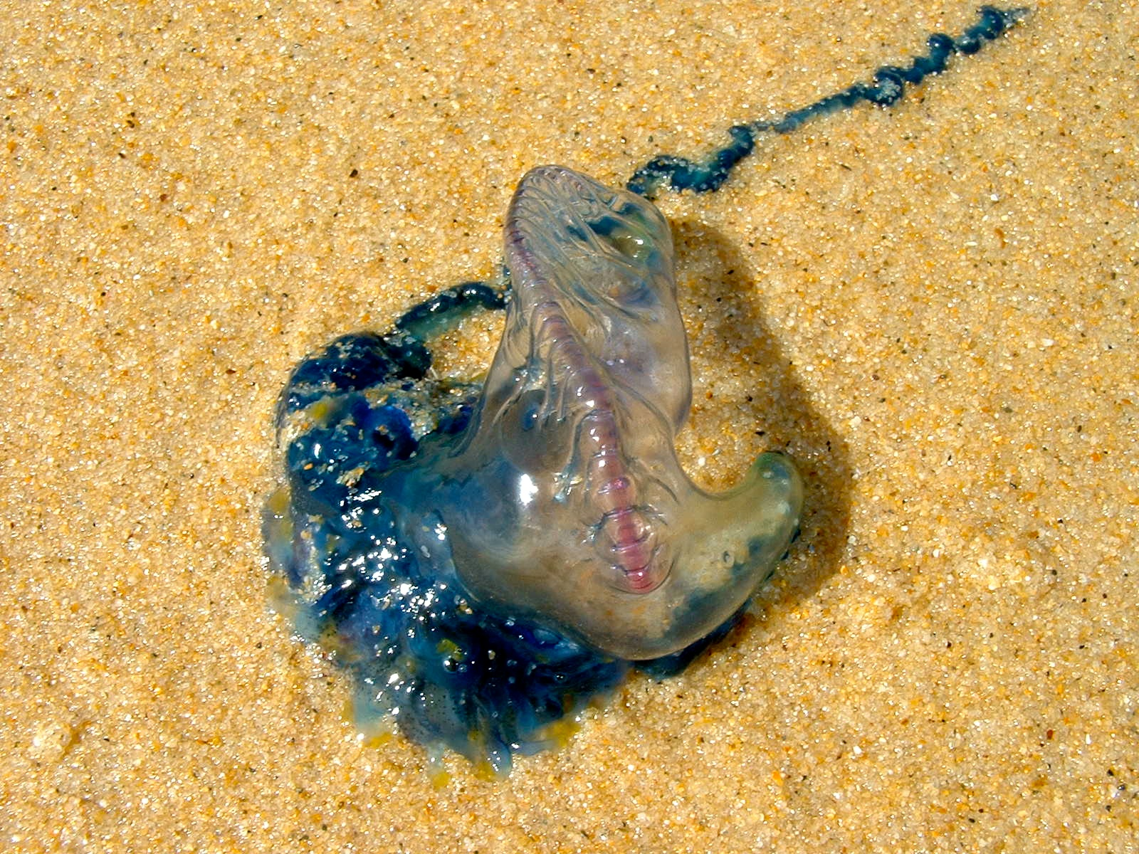 A Blue Bottle (physalia utriculus) at the beach somewhere in Australia